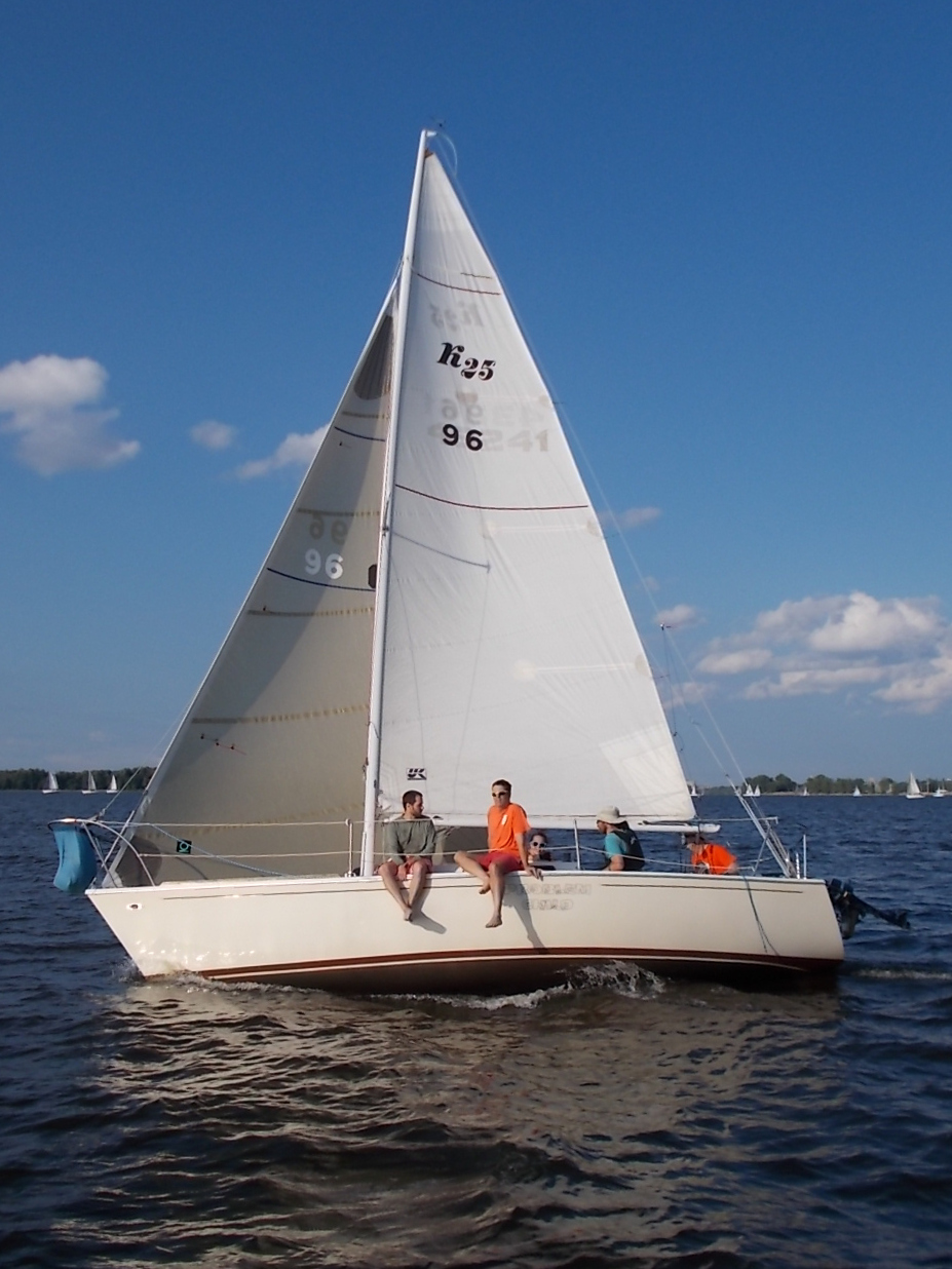 Kirby 25 sailboat #96 "Problem Child" on Lac Deschênes, part of the Ottawa River, Ottawa, Ontario, Canada